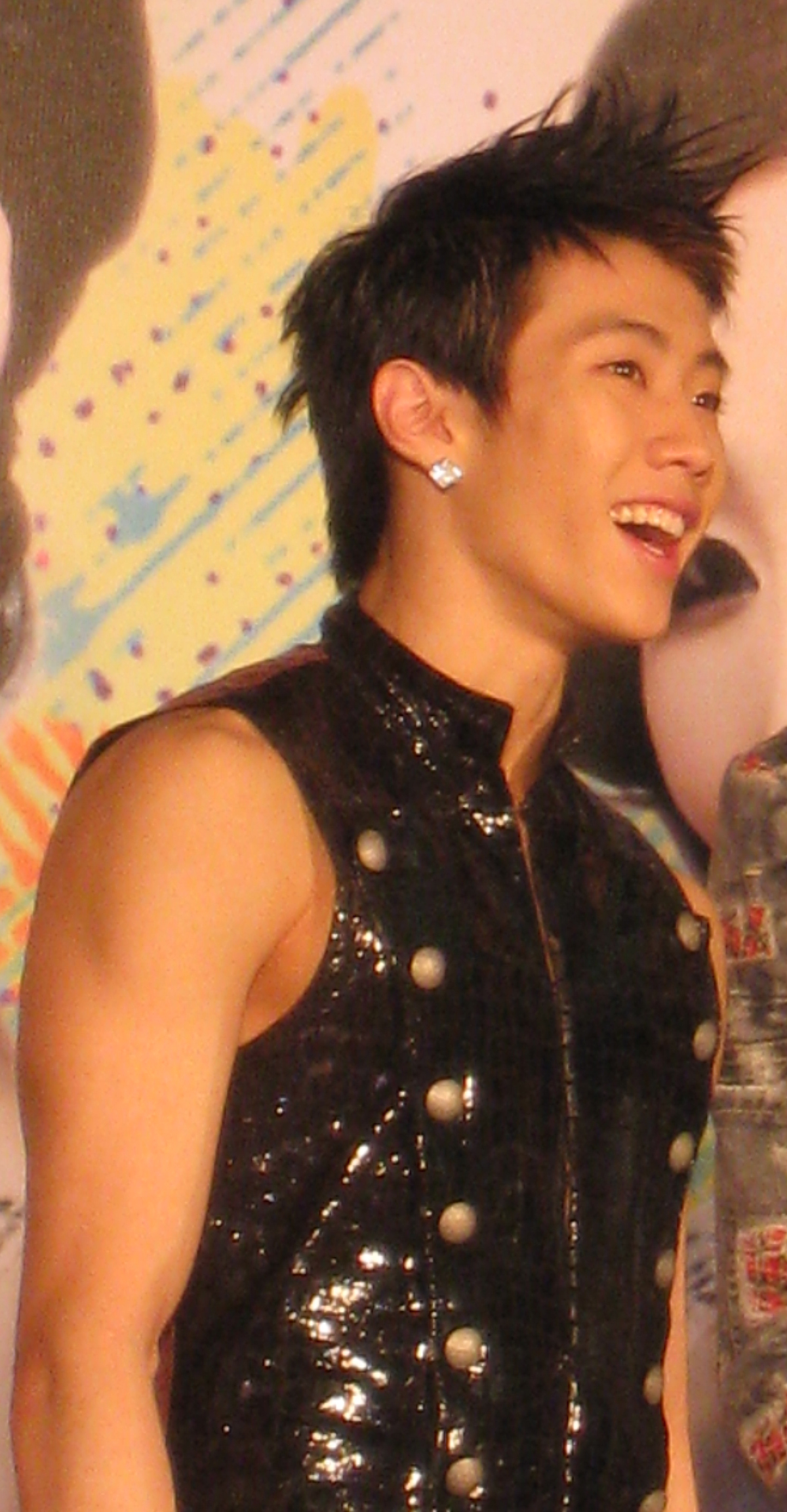 Park Jaebum of AOMG